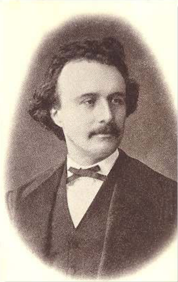 Anton Bergmann (1835-1874), Flemish writer